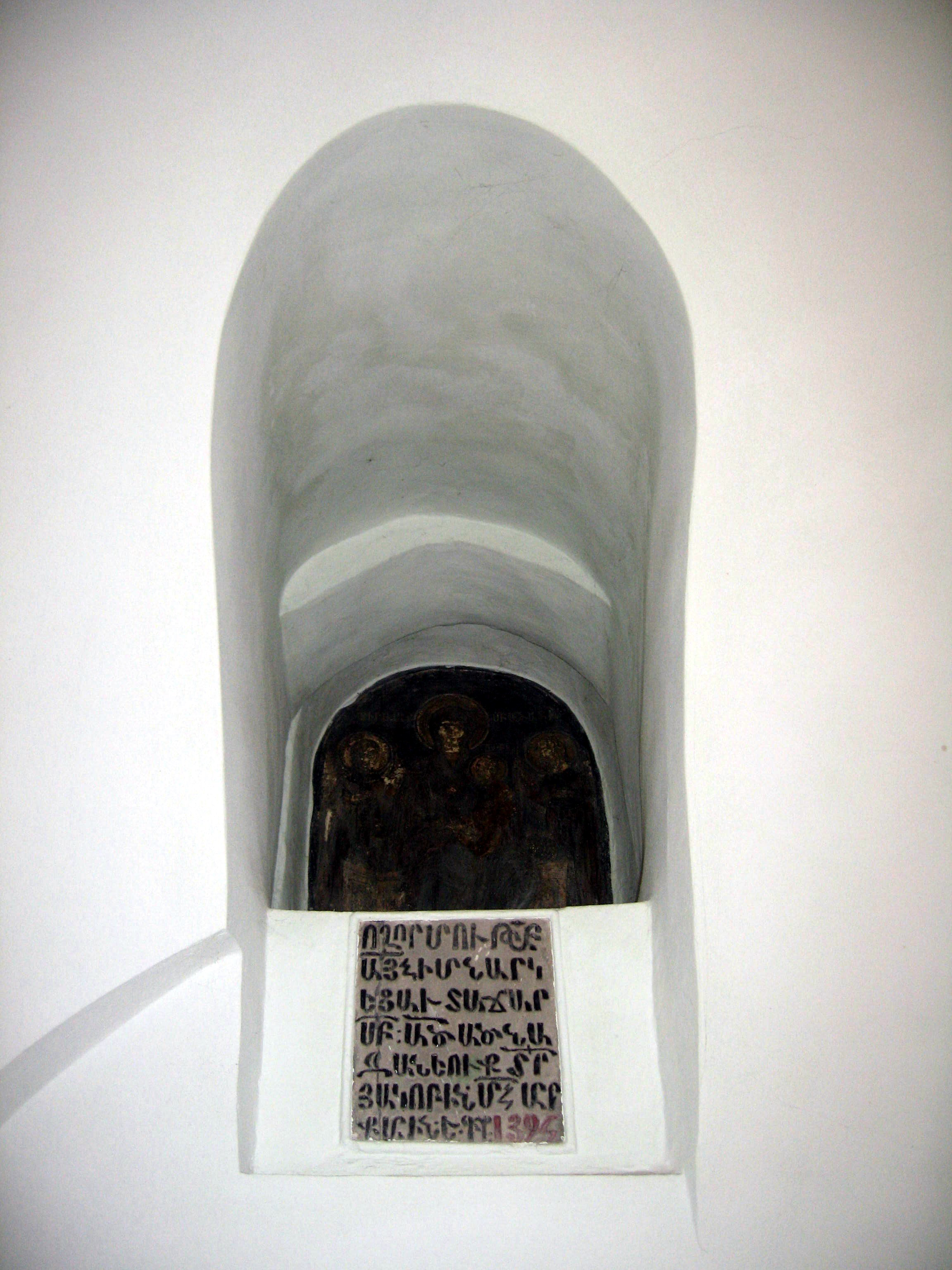 Armenian church in Iași